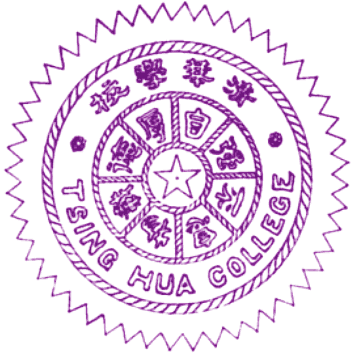 The Logo of Tsinghua Hua School, in 1925.